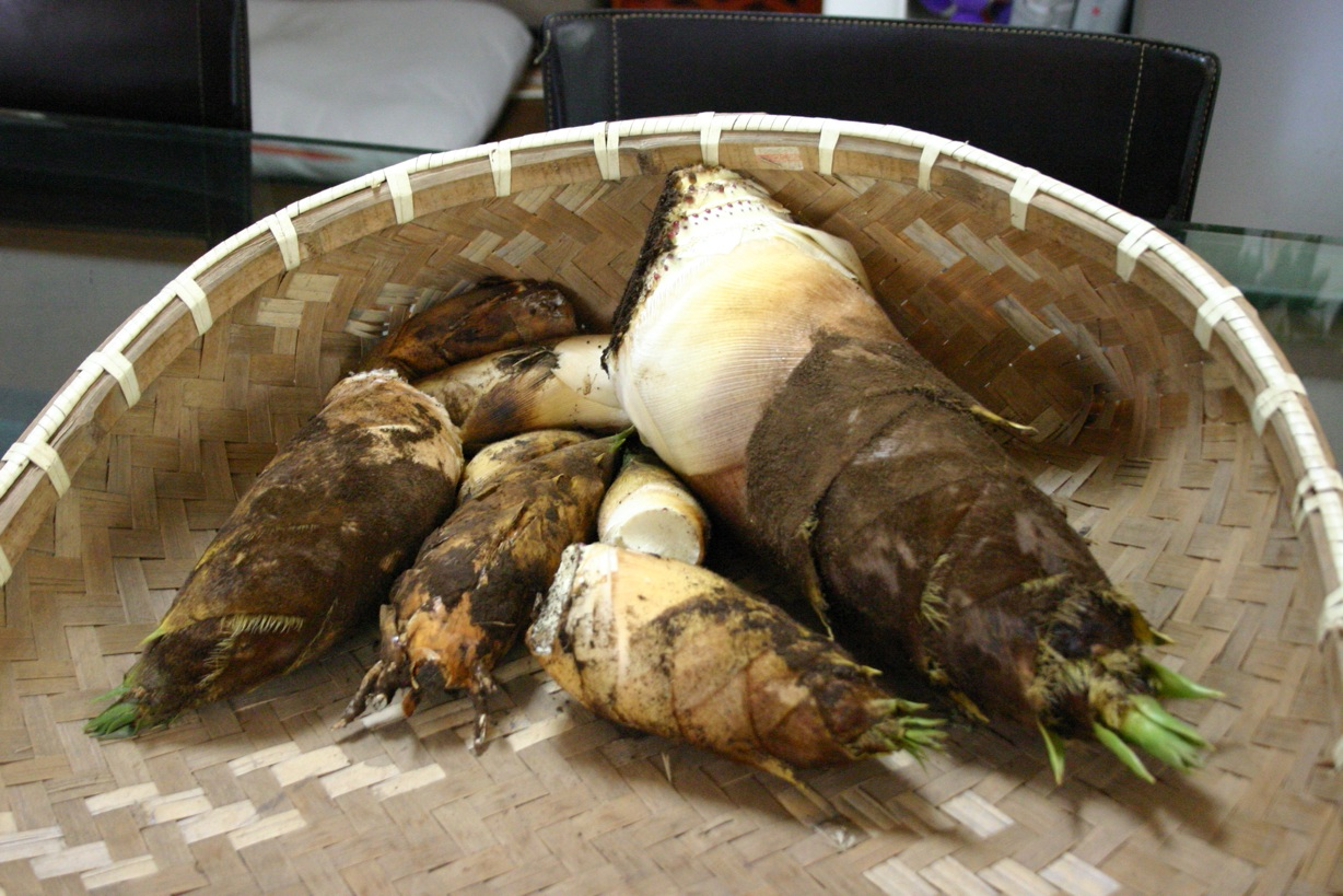 Bamboo sprouts. We picked a variety of sizes to compare the taste. The little ones which were still completely burried are supposed to be the yummiest.